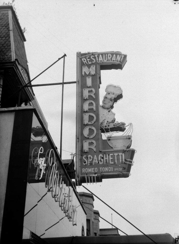 We see the neon sign of the Italian restaurant-café Le Mirador (prop. : Romeo Tondi). It represents a chef with a bowl of spaghetti.